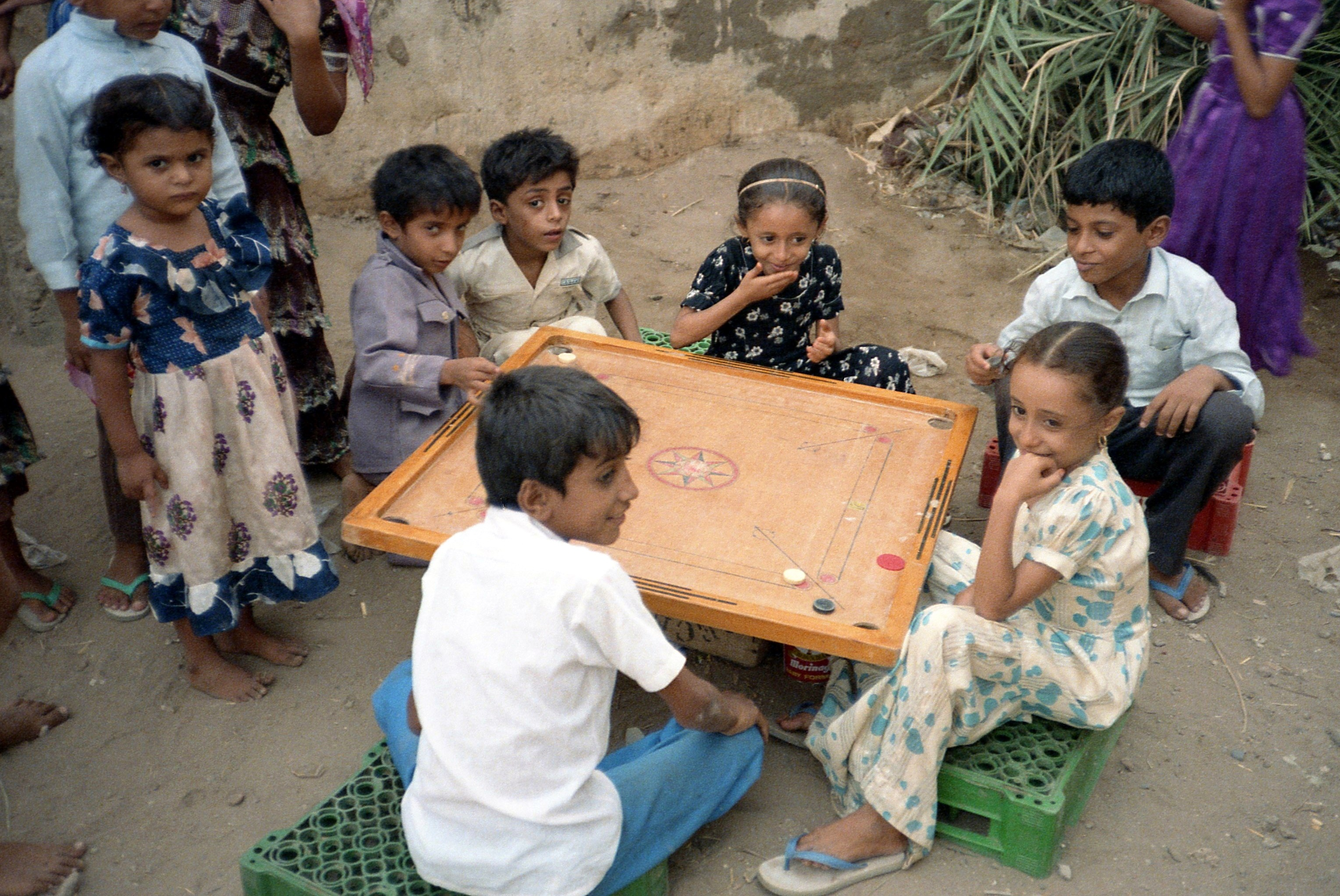 Children playing carrom in Bayt al-Faqih, Yemen